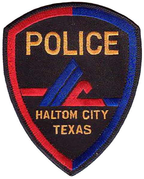 Image is similar if not identical to the Haltom City Police patch used as a means of public awareness of what the official logo is when observed by the public. Made with Photoshop